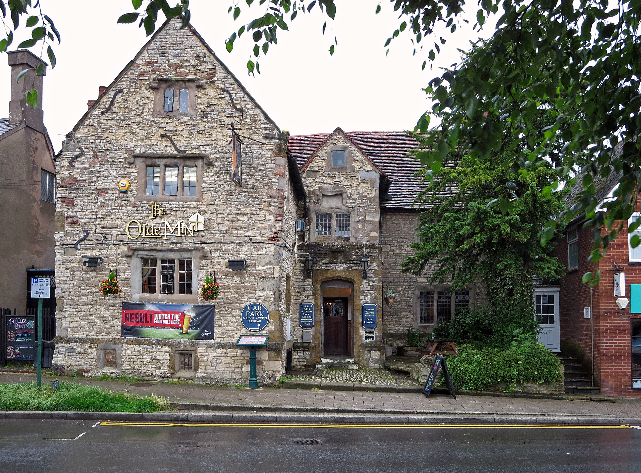 The Olde Mint, Southam Early sixteenth century house constructed with the same materials as the parish church: white Lias limestone, and details in red Bunter sandstone. Alleged to have been used as a mint during the Civil War.